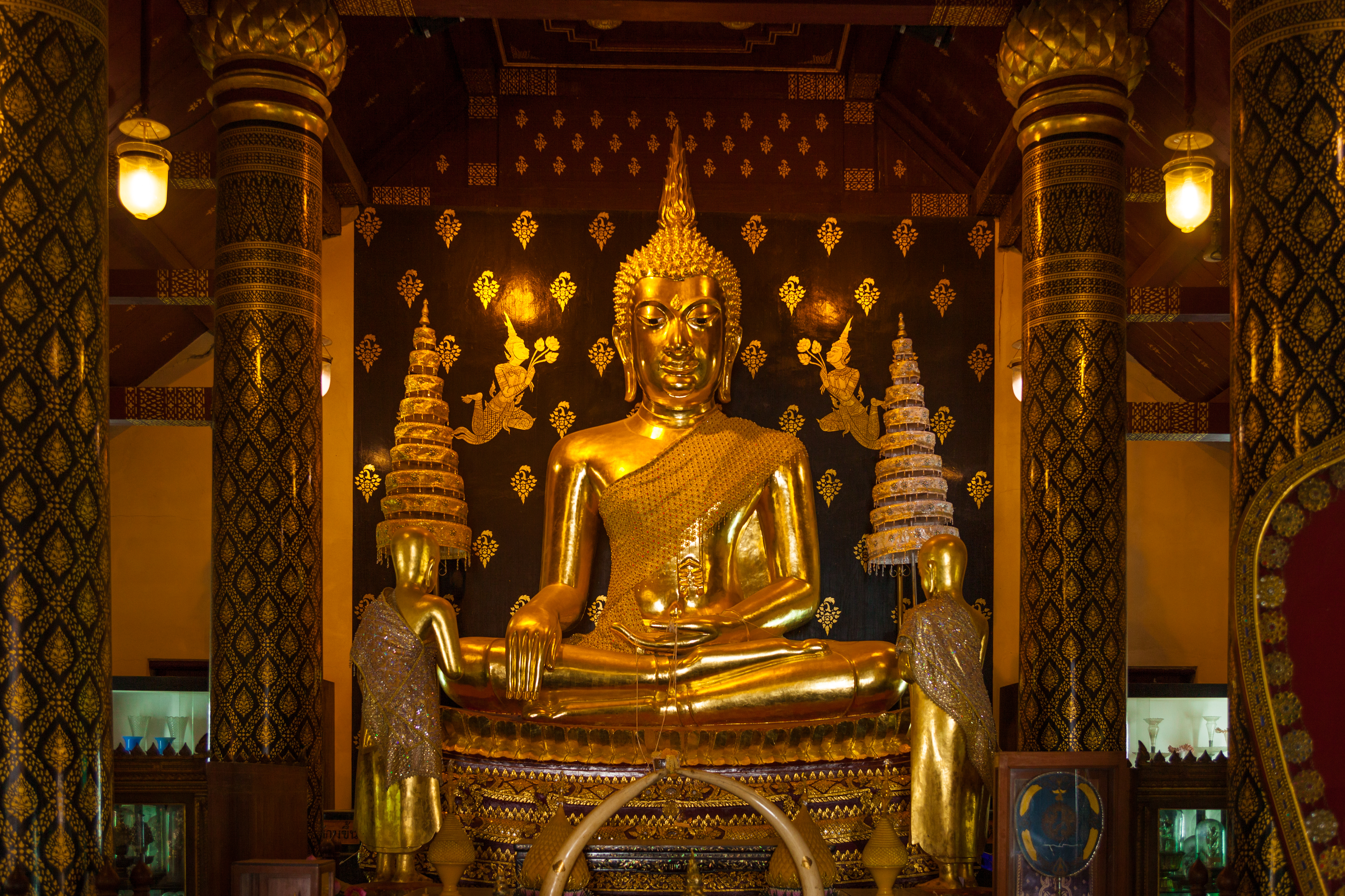 Phra Buddha Shinnasee at Wat Phra Si Rattana Mahathat, Phitsanulok.